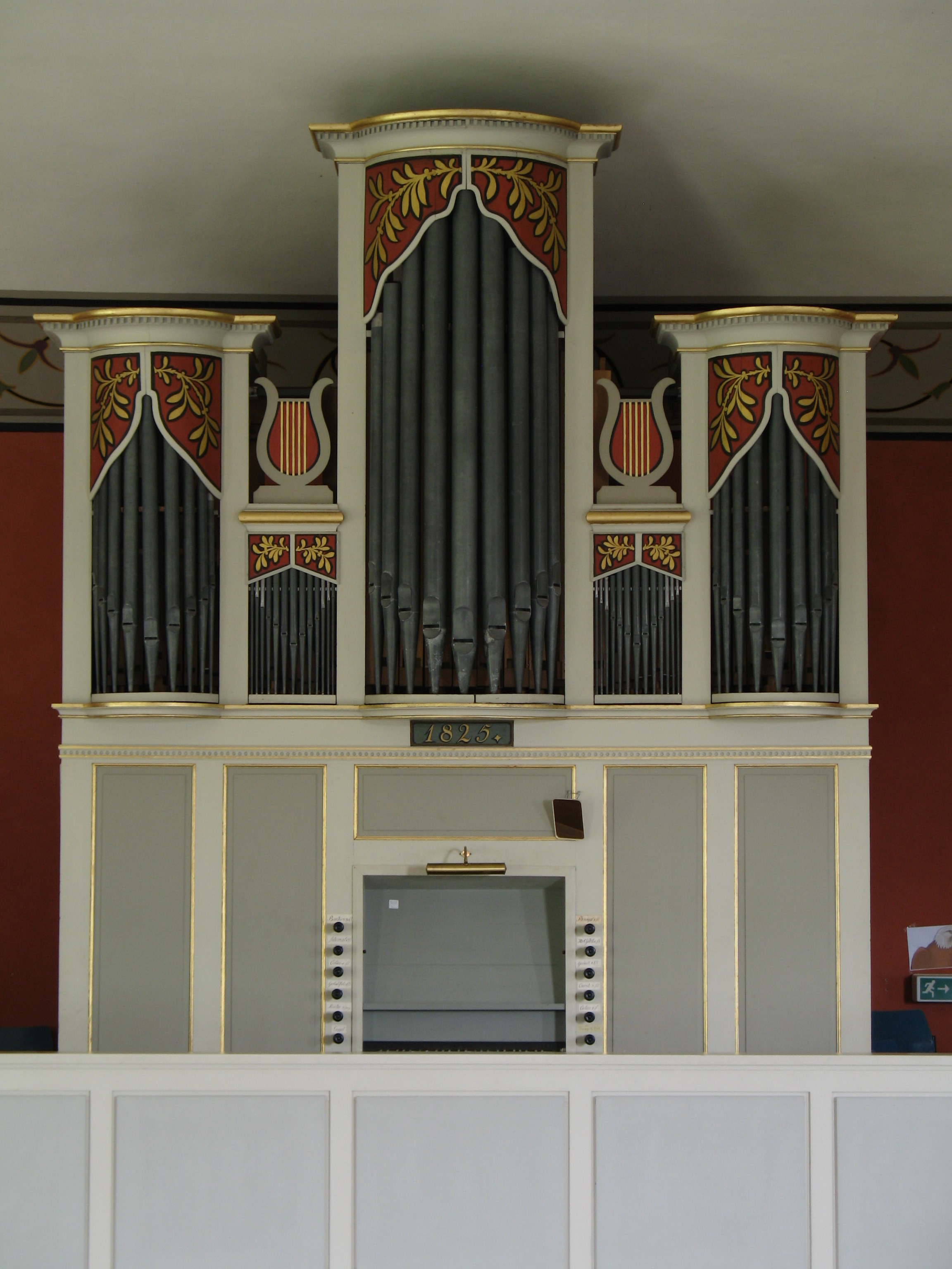 Organ in Barterode